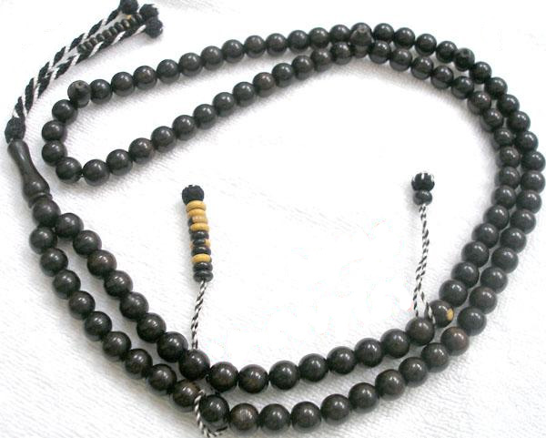 islamic prayer beads - Masbaha